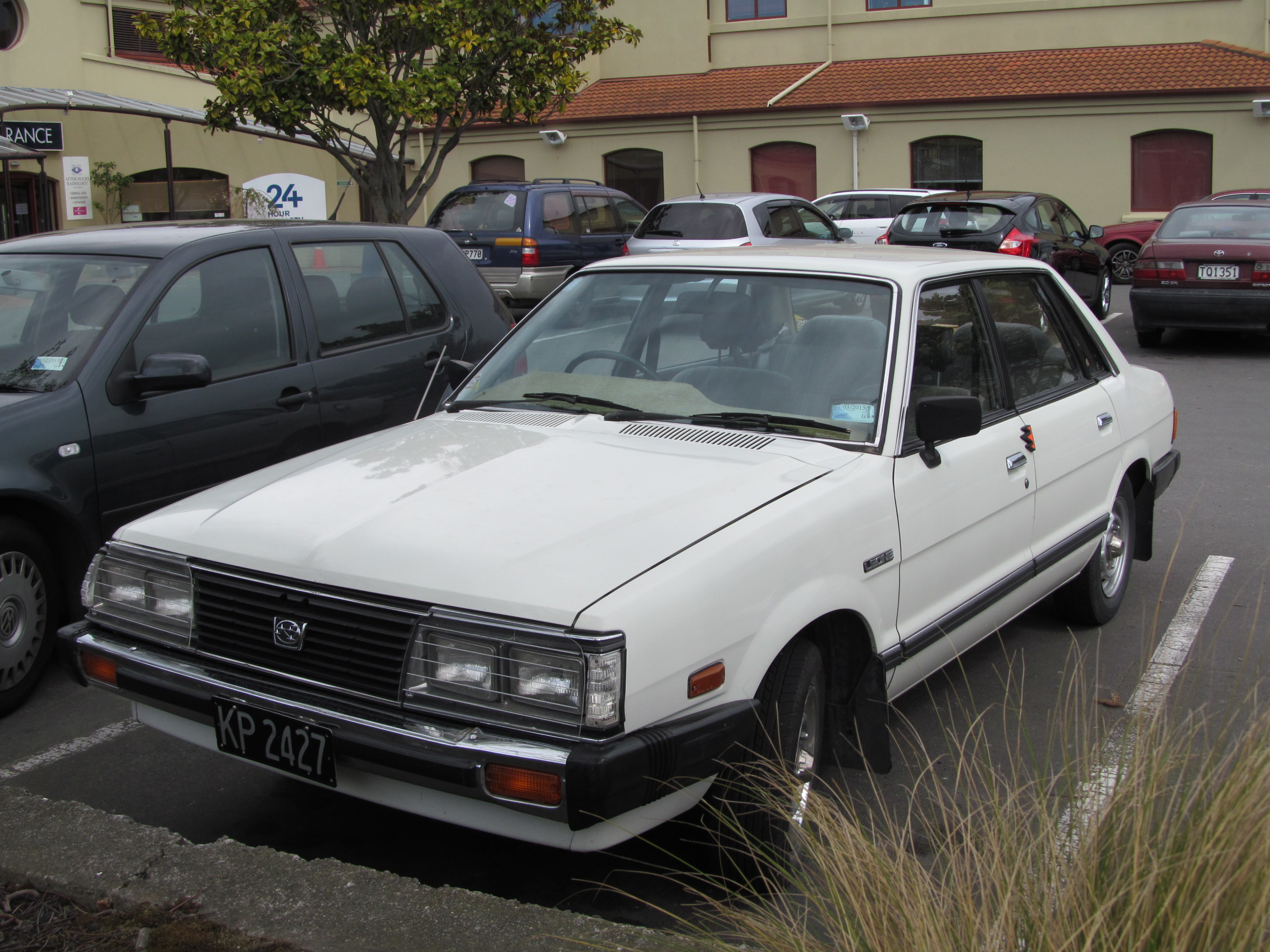 This was a seriously unexpected sight in a 24 hour surgery car park. The stunning condition along with the door stops strongly suggests an older owner, and possibly the original owner as well. These are very, very rare here now.